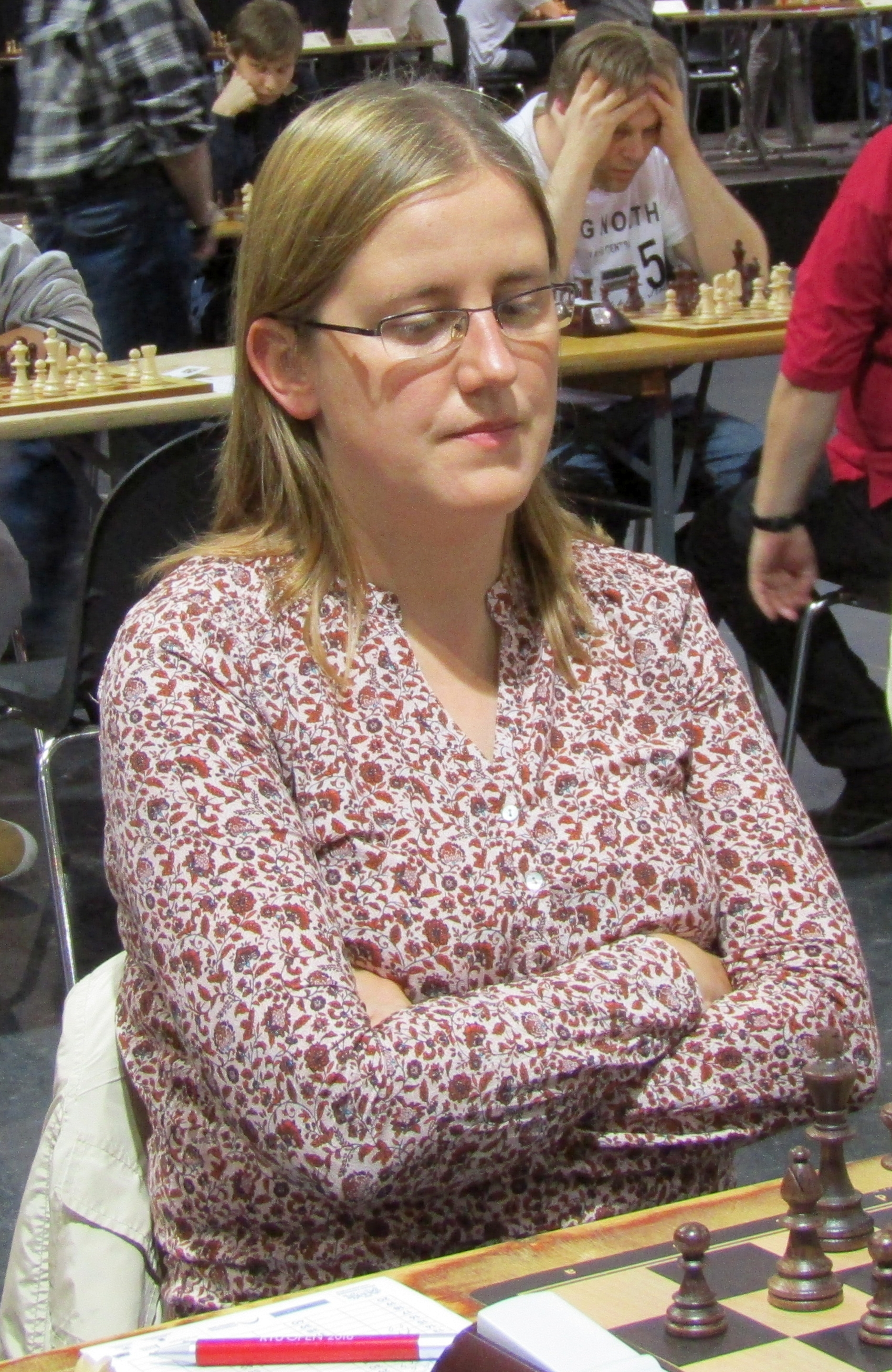 Ilze Bērziņa, woman chess grandmaster from Latvia, 2016